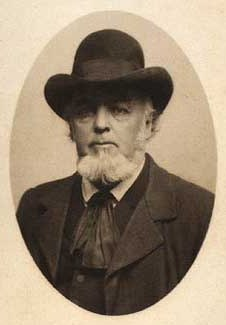 Johannes Carl Emil Clausen (1832-1908), Danish priest